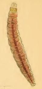 Stainton’s Natural History of the Tineina (1855–1873): Zelleria hepariella